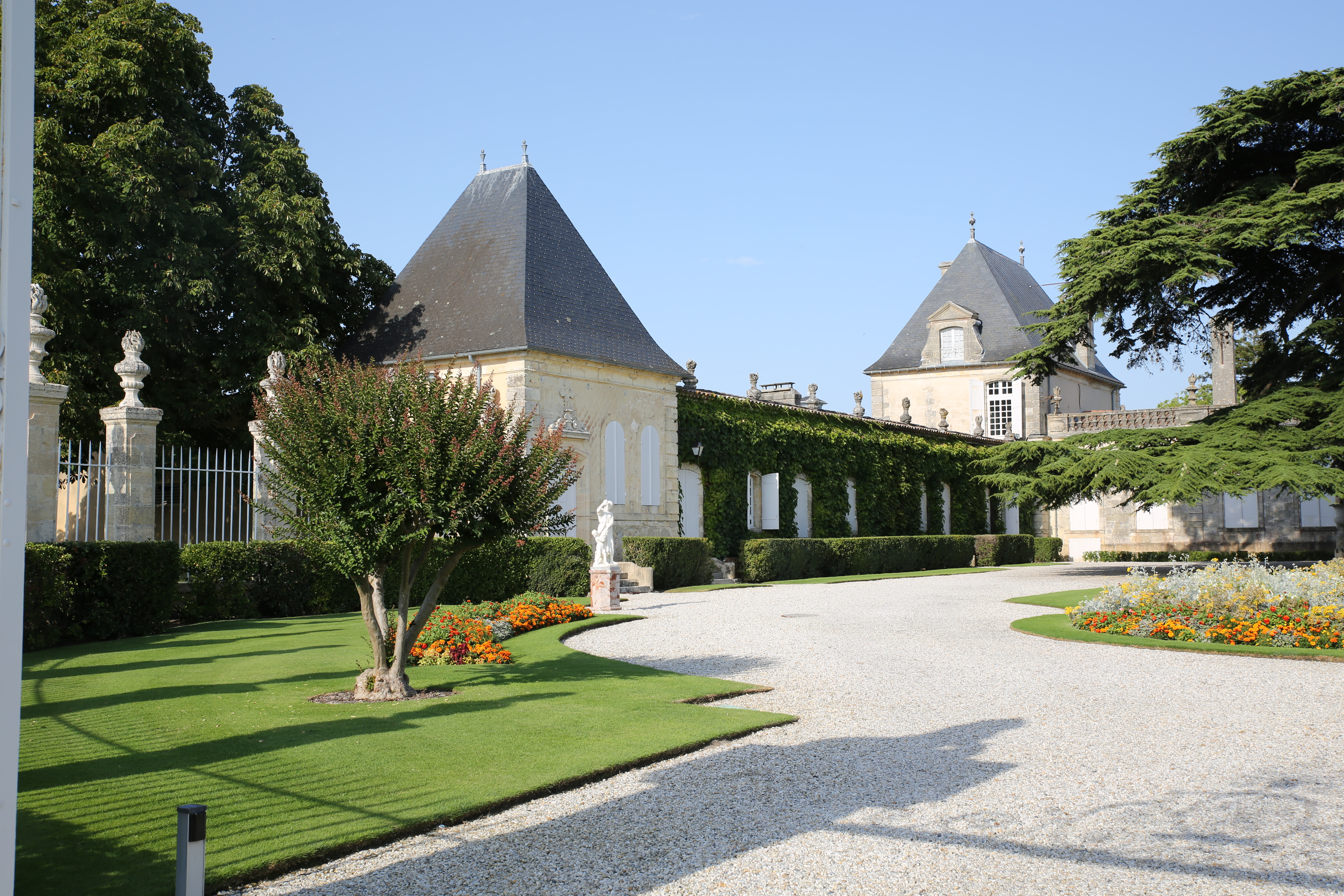 Aile gauche à l'arrière du château Beychevelle et sa chapelle.